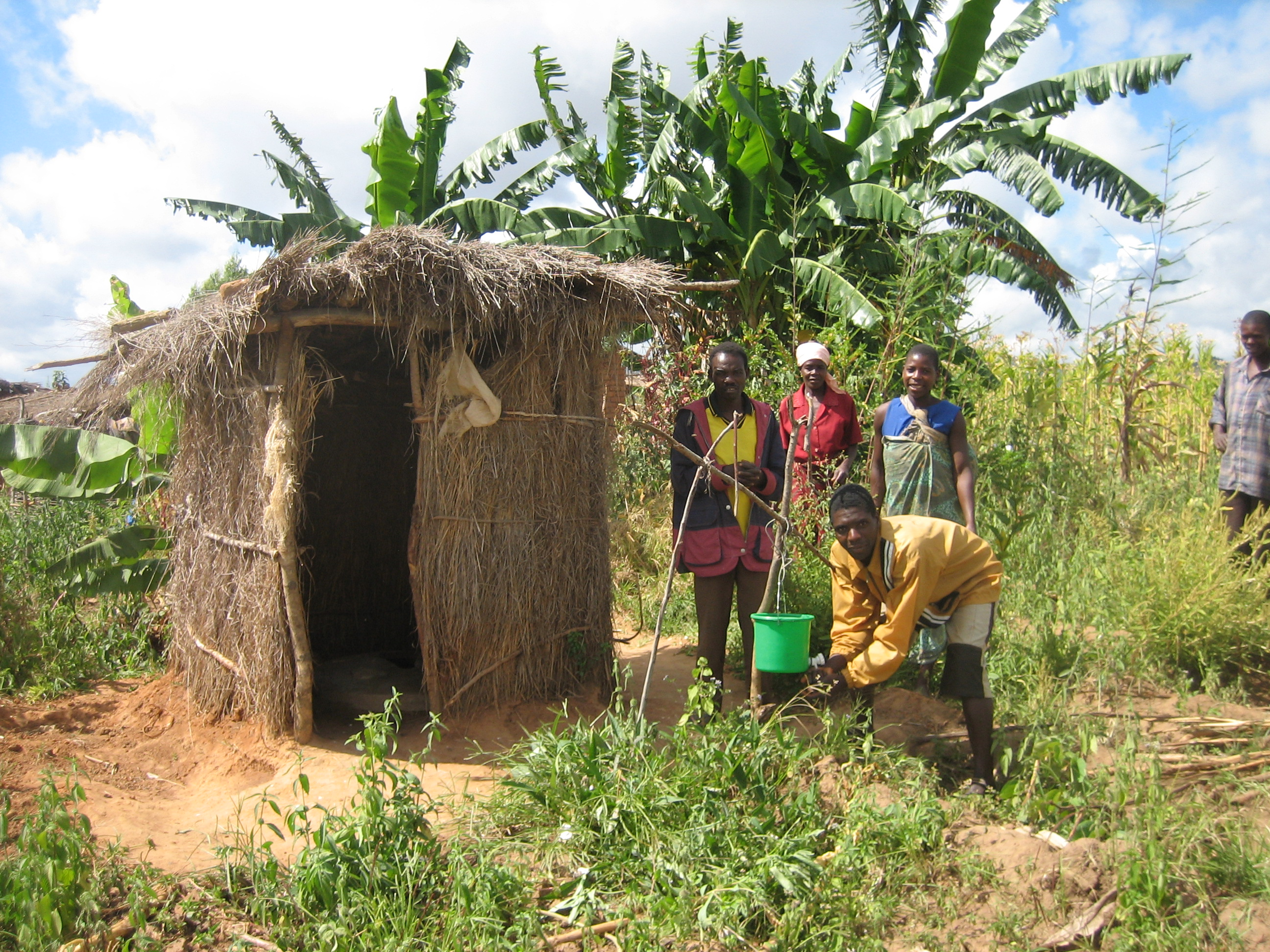 Arborloo. Photo by: Peter Morgan in 2008, Ekwendeni-Malawi.